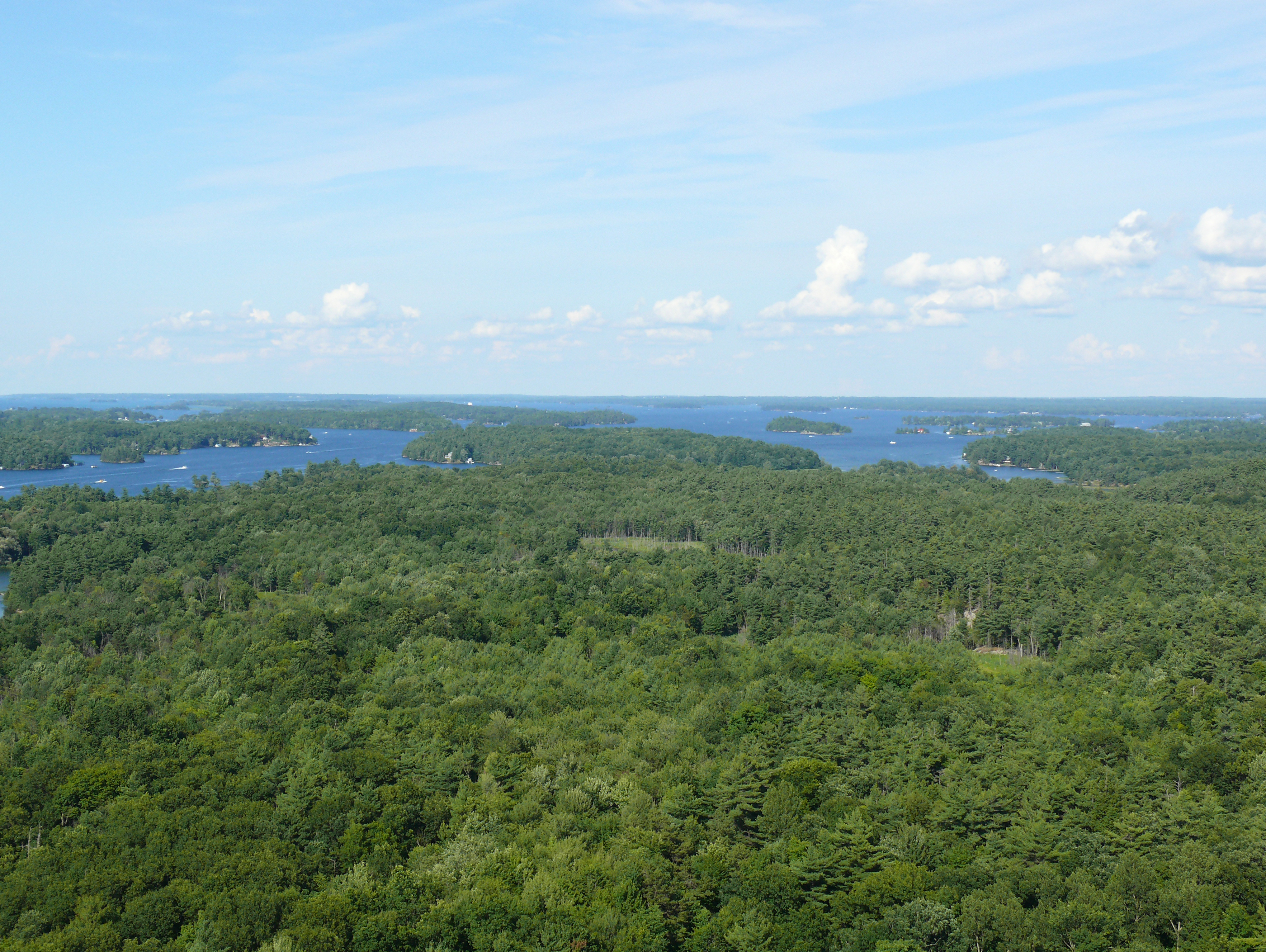 Thousand Islands and the Saint Lawrence River as seen from the Skydeck on Hill Island (CAN).